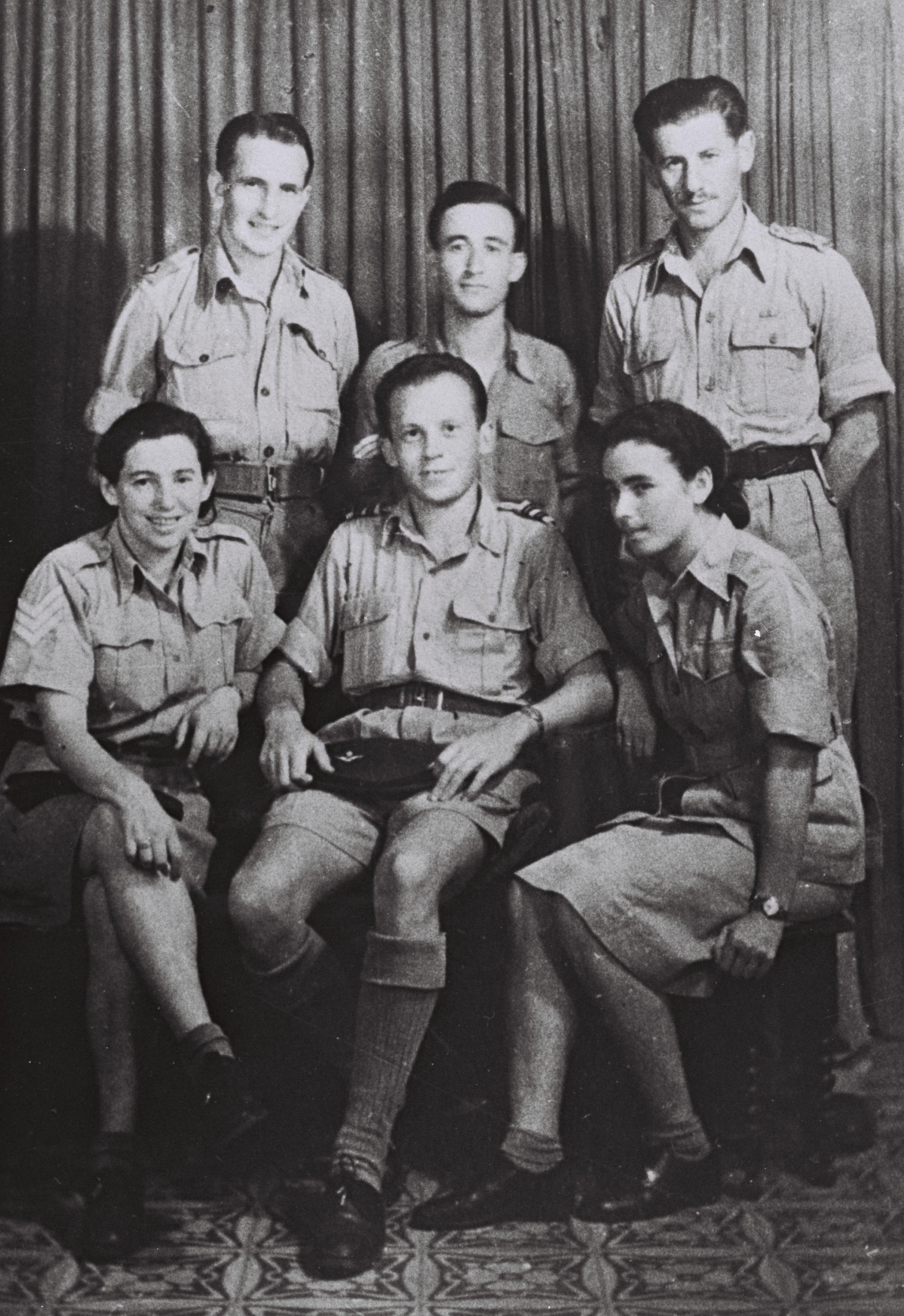 BRITISH JEWISH PARACHUTISTS IN BARI ITALY. R.TO L.STANDING, REUVEN DAFNI, ZADOCK BUROGOYER, ABBA BERDIZEV SITTING R.-L SHURIKA BROVERMAN,ARIE FICHMAN & HAVIVA REICK. צנחנים יהודים מתנדבים, אשר לחמו לצד הבריטים נגד הגרמנים ליד ברי שבאיטליה. עומדים מימין לשמאל, ראובן דפני, צדוק בורוגויר, אבא ברדיצ'ב. יושבים מימין לשמאל, שוריקה ברורמן, אריה פישמן וחביבה רייך.